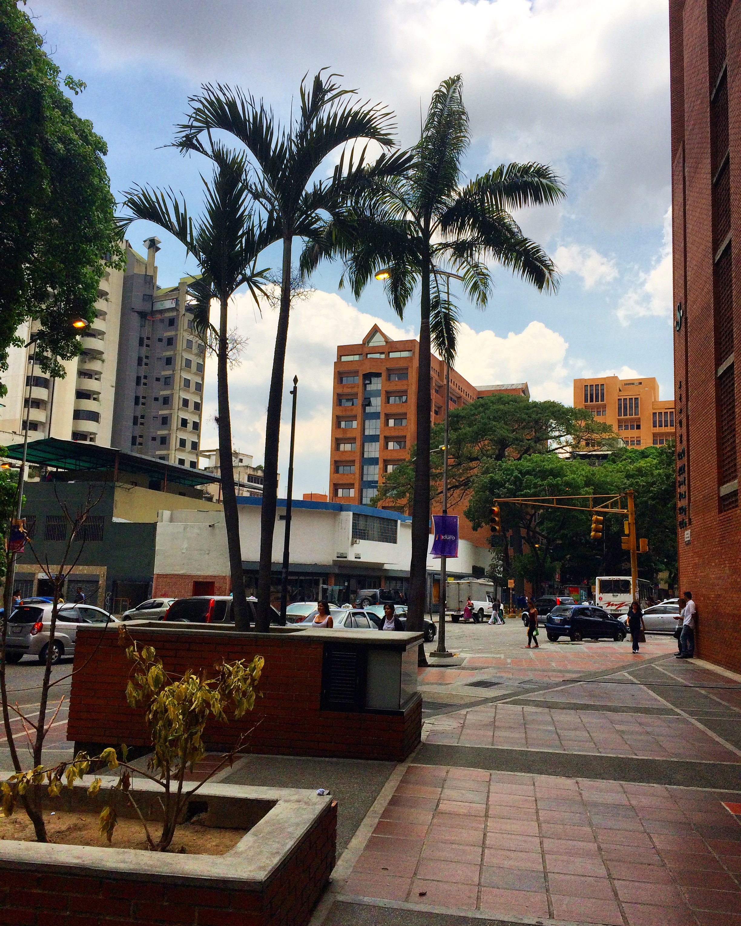 Avenida Francisco Solano Lopez Caracas Venezuela